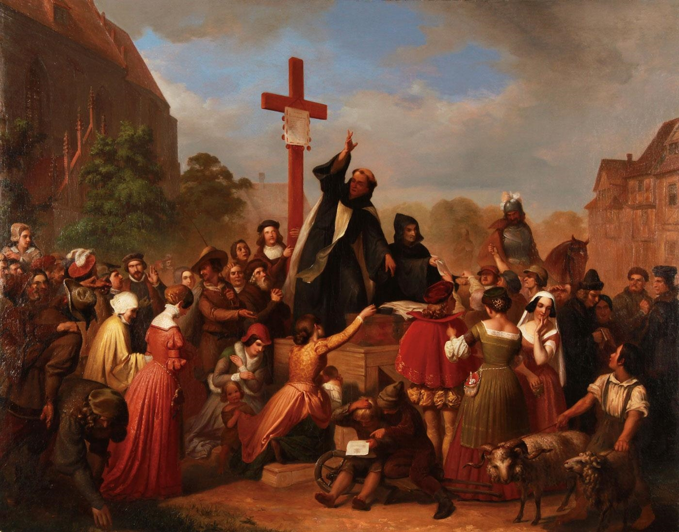 Friar Johann Tetzel Selling Indulgences